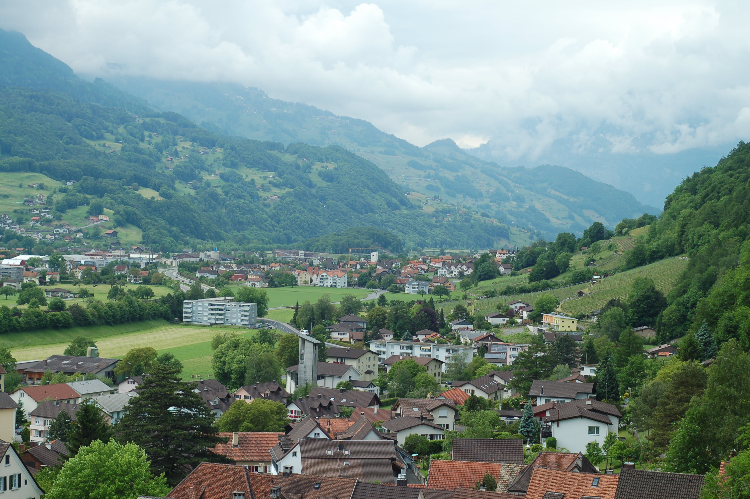 View from the castle of Sargans